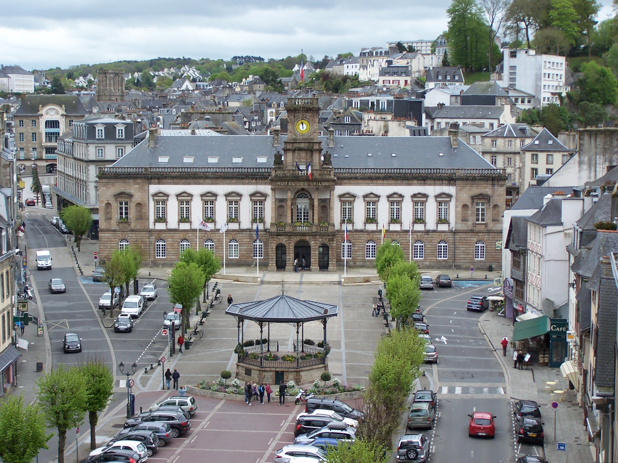 View of the city hall of Morlaix, Brittany.